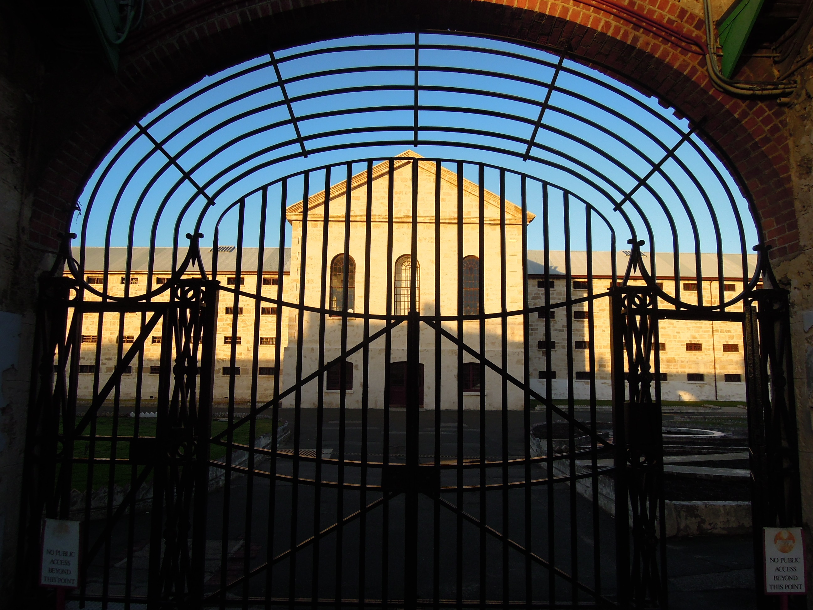 The gate of the Fremantle Prison (Fremantle, Western Astralia) at sunset